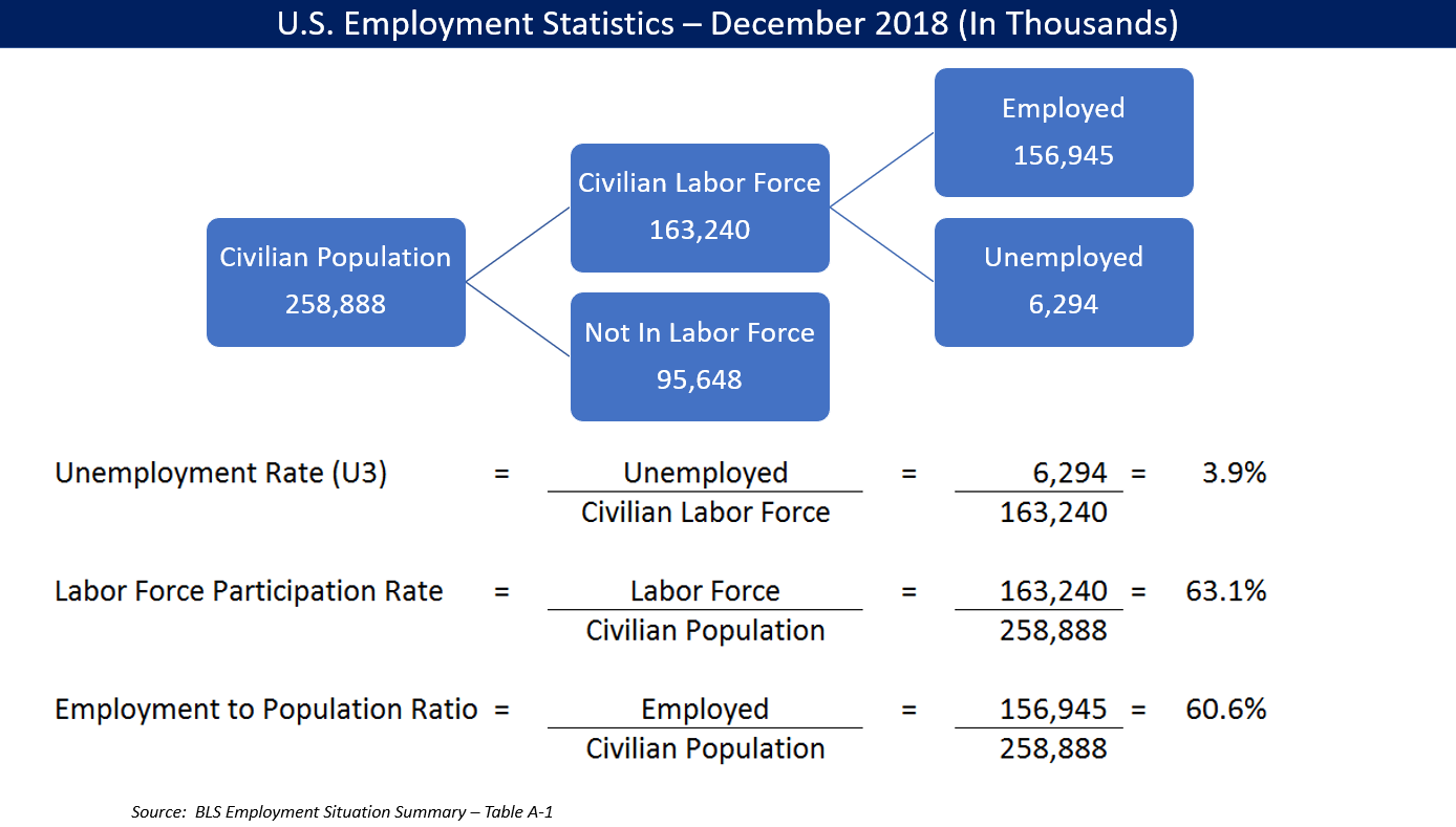 Graphic describing key U.S. employment statistics and ratios